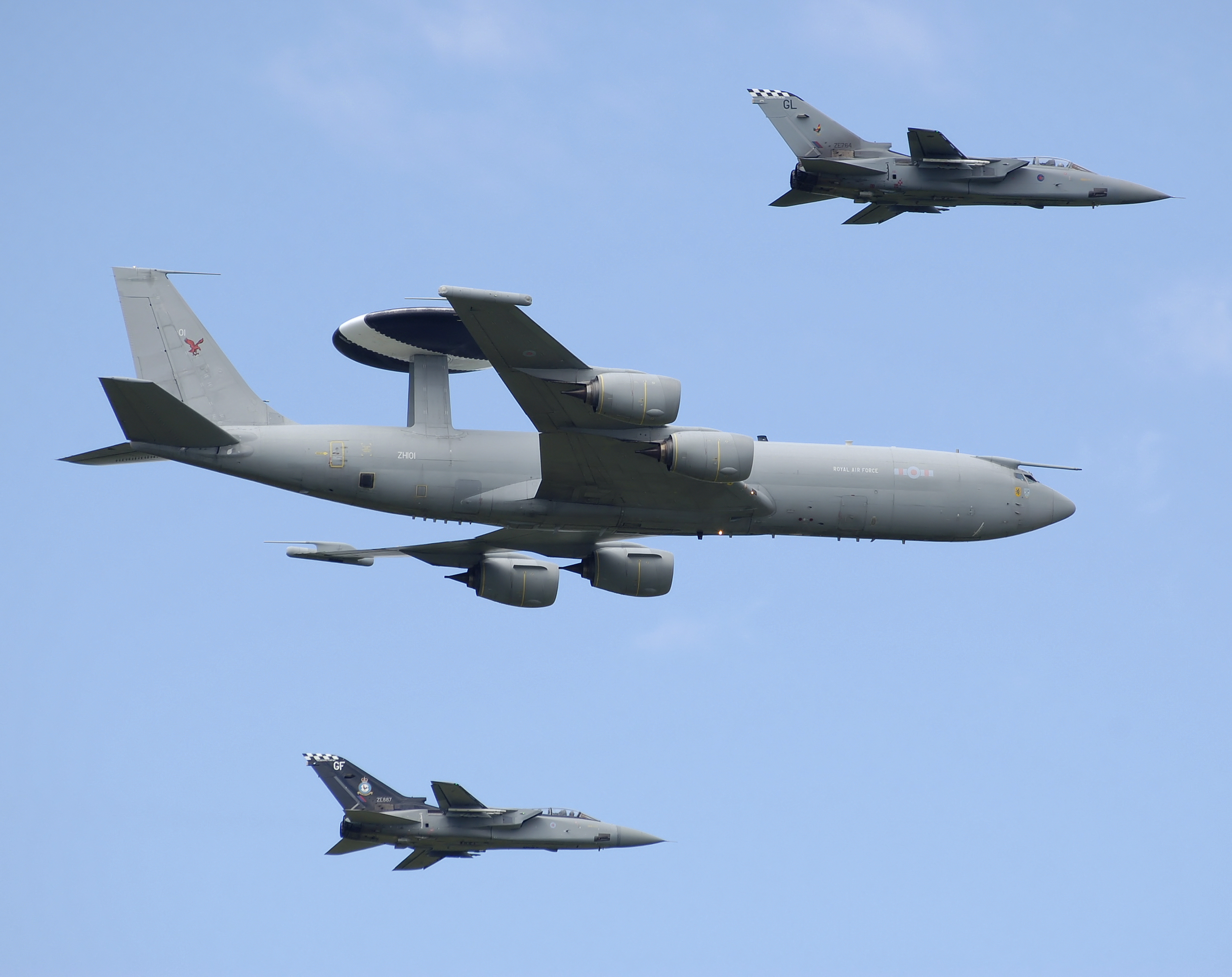 RAF Boeing E-3D Sentry AEW1 (military code ZH101) during the RAF Role Demonstration at Kemble Air Day 2008, Kemble Airport, Gloucestershire, England. The E-3 is accompanied by two Panavia Tornado F3 (ZE764 and ZE887).